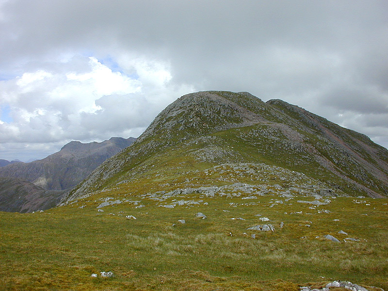 Summit of Sgùrr na h-Ulaidh from Còrr na Beinne Seems that "Sgor" has recently been changed to "Sgùrr" by the Ordnance Survey.